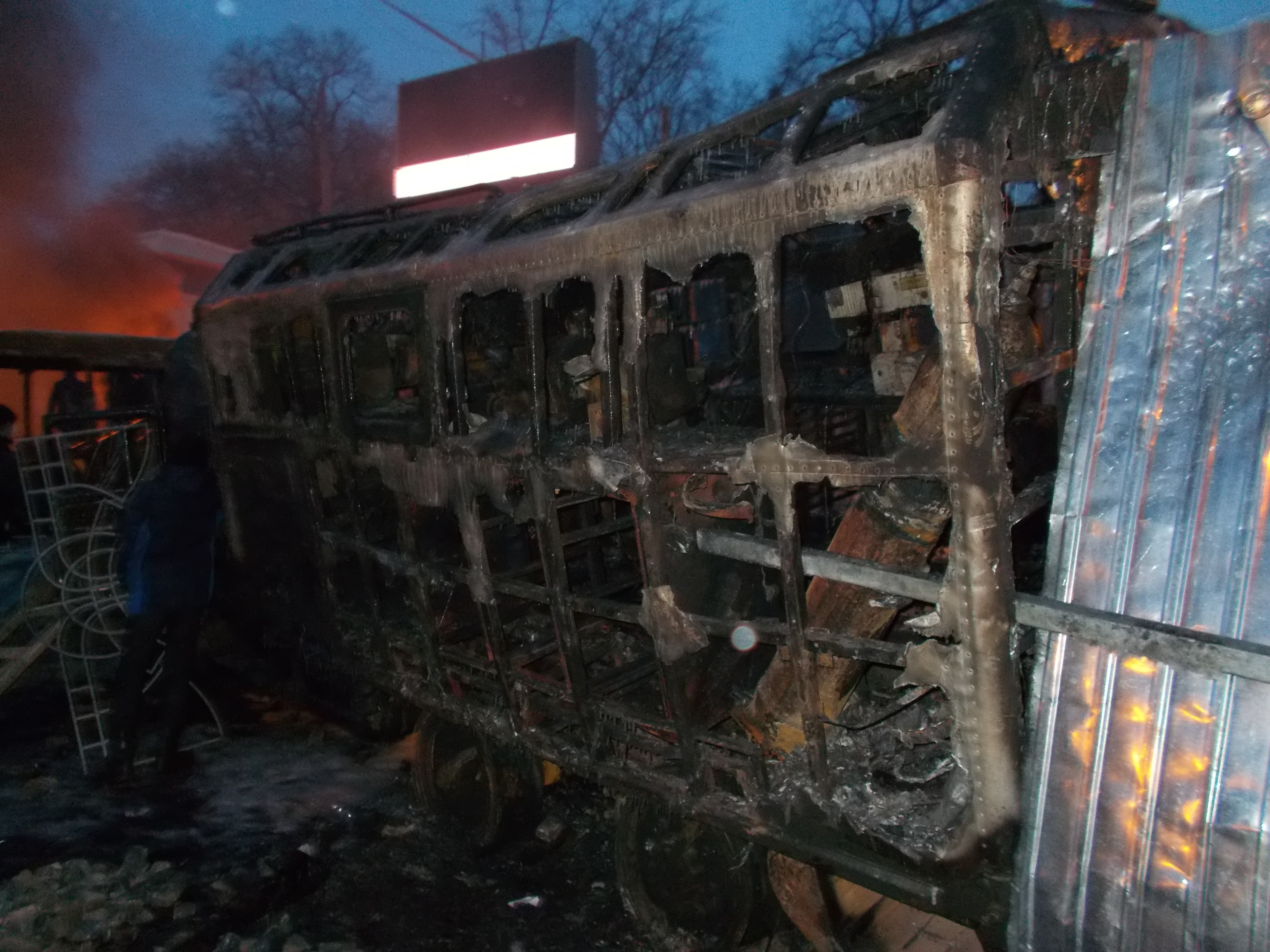 Protests on Hrushevskyi street, Kiev, 20 January 2014